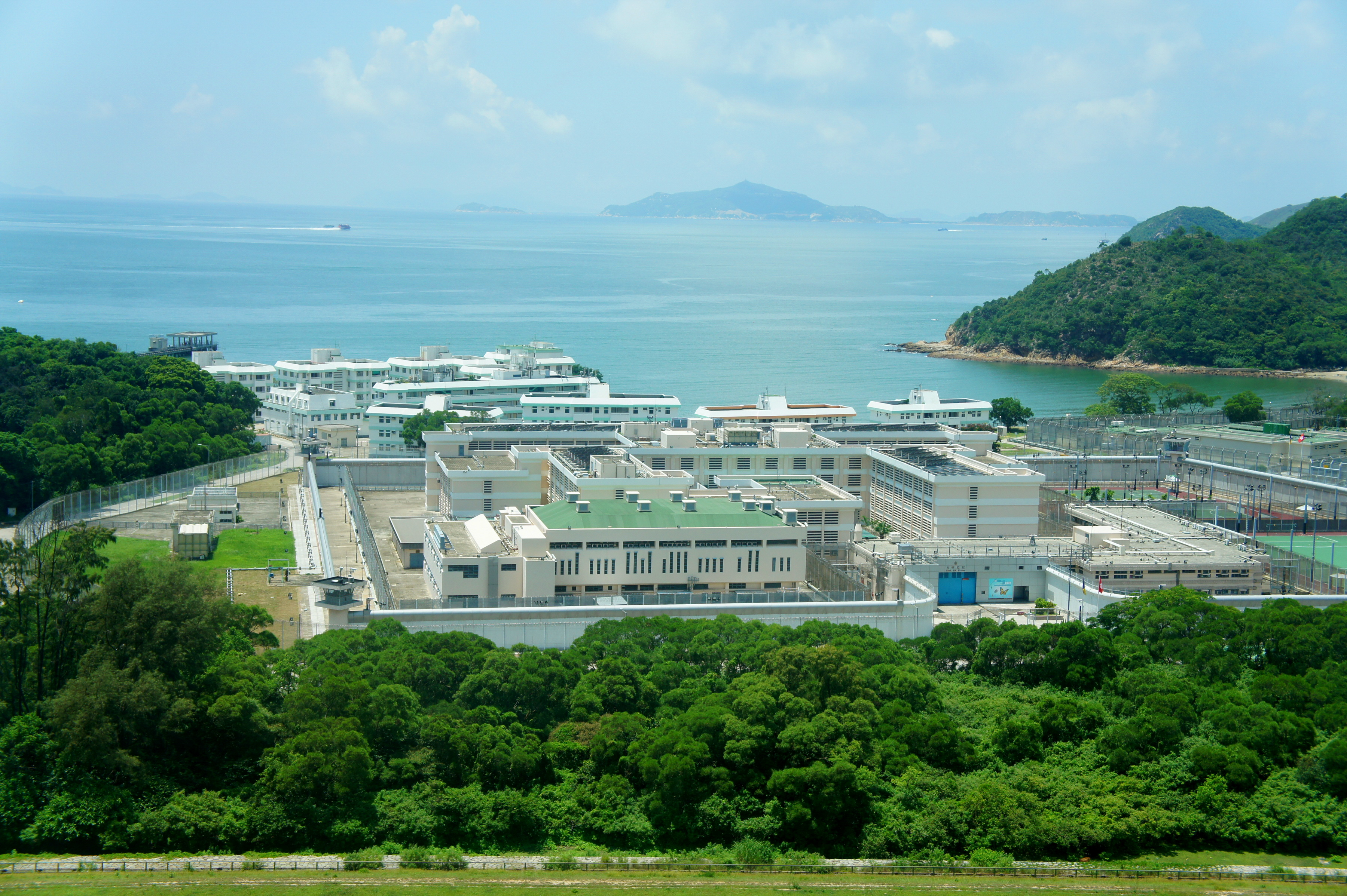 Shek Pik Prison (Maximum security institution), 47 Shek Pik Reservoir Road, Lantau Island, Hong Kong. Guishan Island of Zhuhai is visible in the distance.